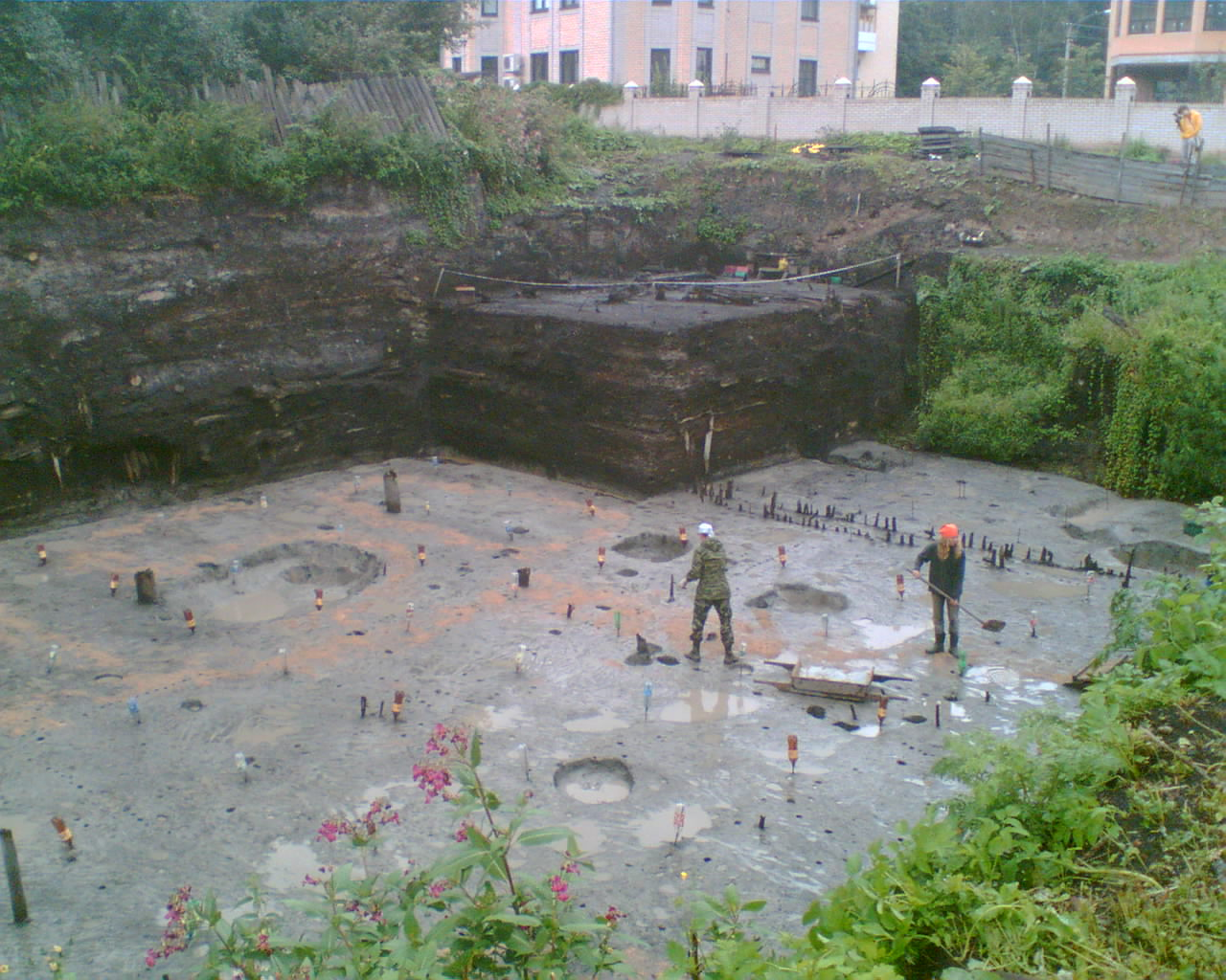 Troitsky raskop (excavation) in Veliky Novgorod, Russia